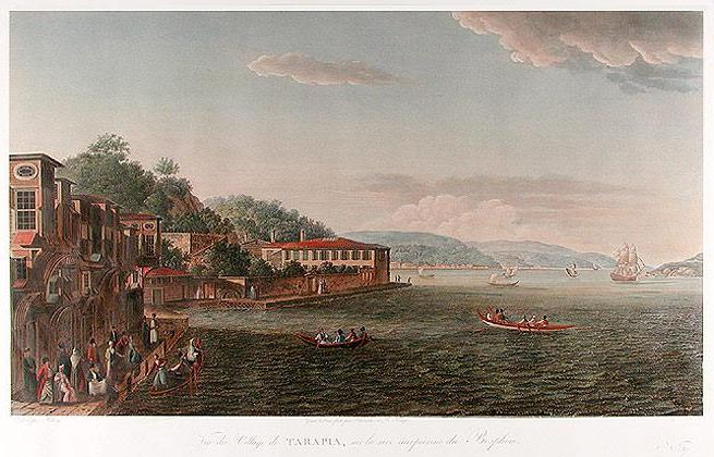 Tarabya, Sarıyer